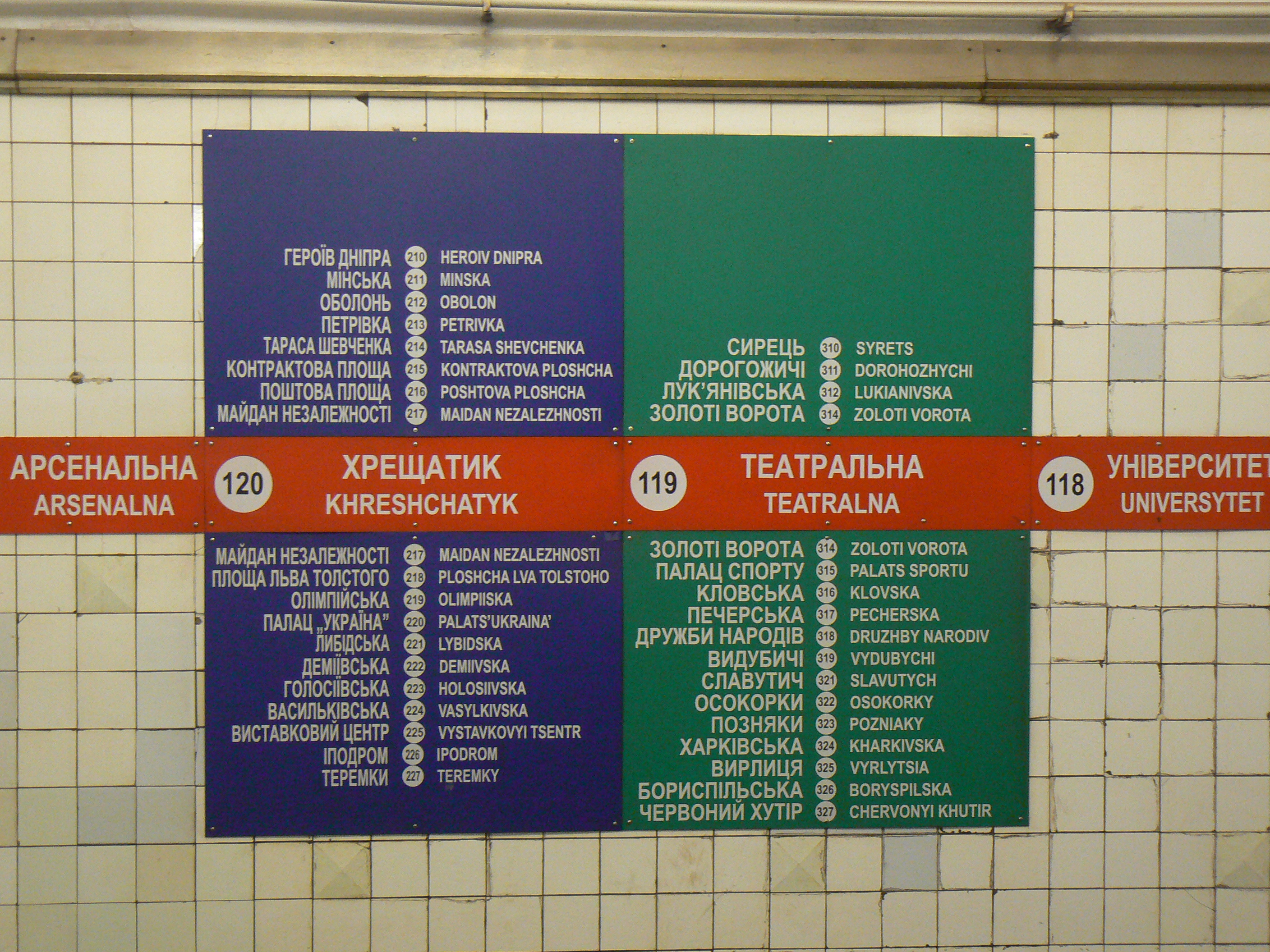 Passenger information, Kiev Metro.